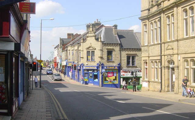 Wombwell Original description: Wombwell Looking north-west along High Street, Wombwell, South Yorkshire, from the corner of Church Street.